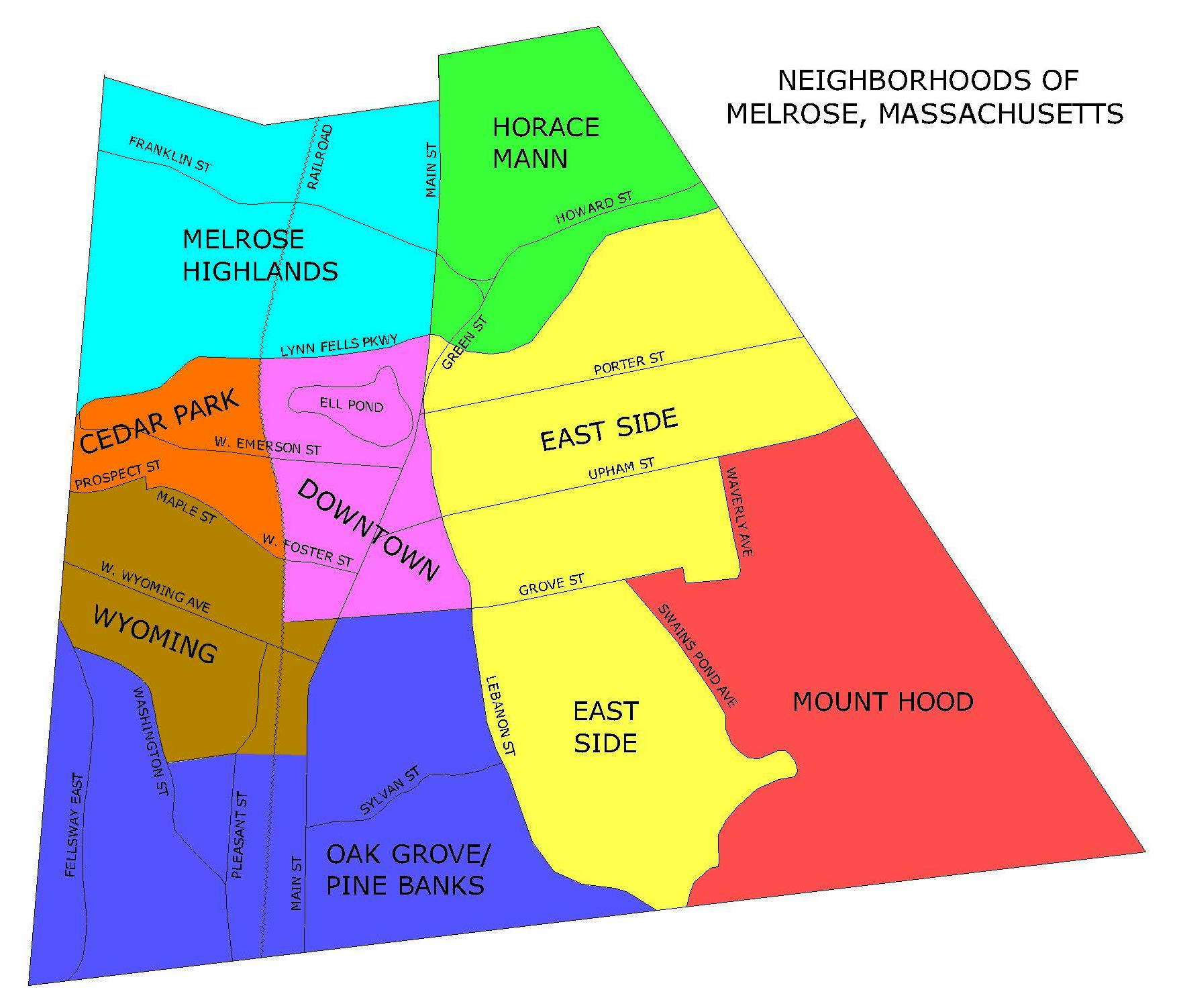 A map showing the approximate boundaries of the neighborhoods of Melrose, Massachusetts.